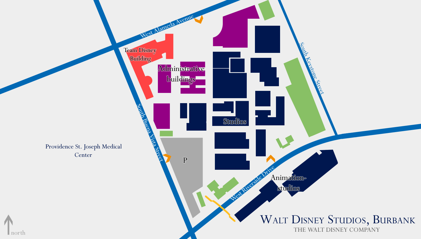 Original image (also made by Remy Overkempe) Map of the Walt Disney Studios in Burbank, LA, CA, USA. Made by Remy Overkempe.